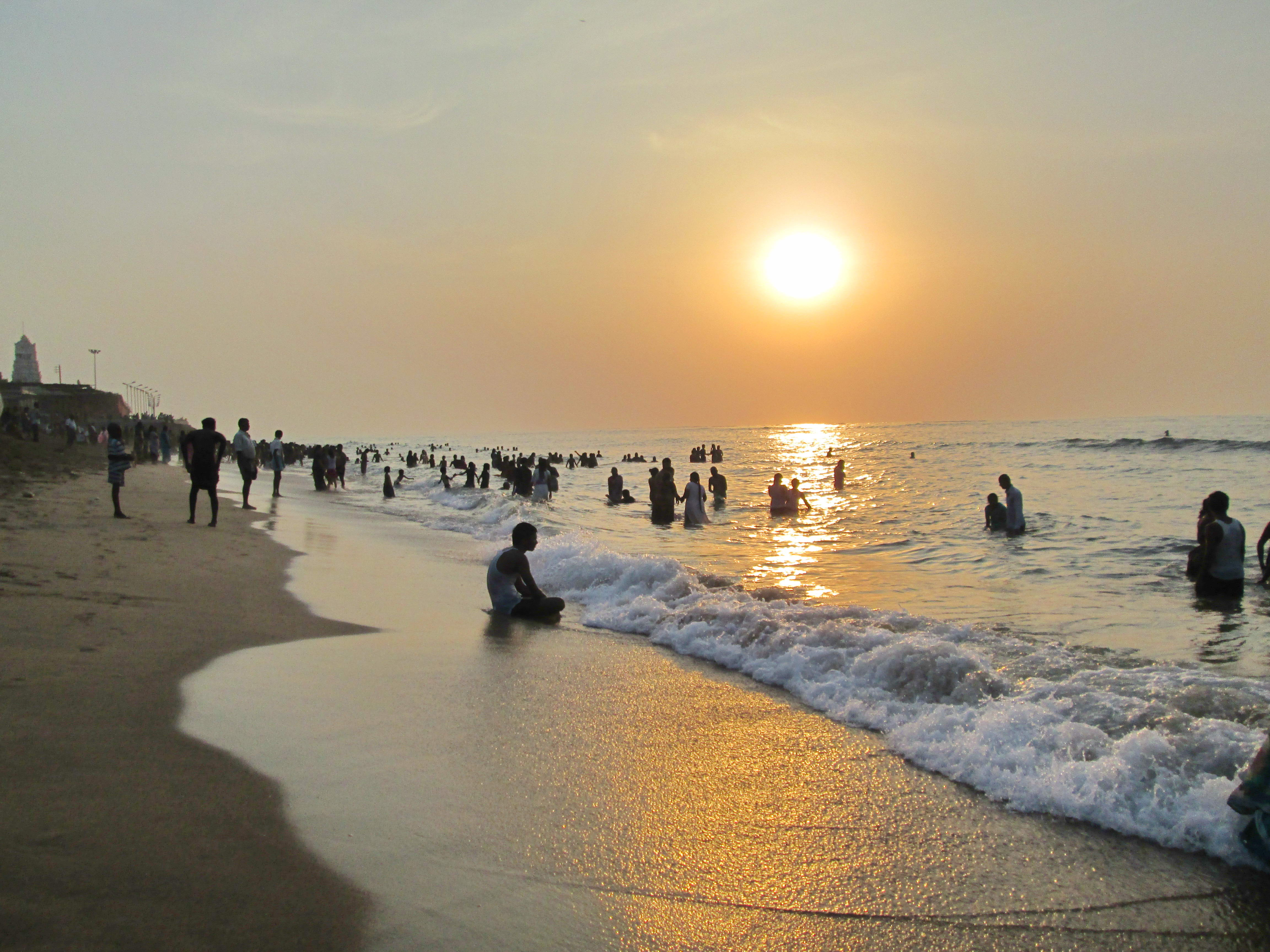 A tourist enjoys the sunrise at Tiruchendur in India